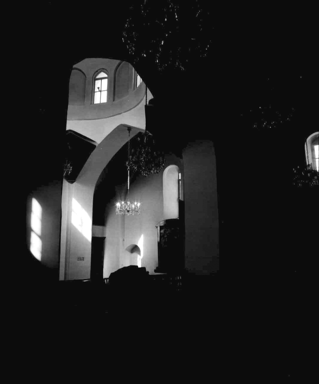 Insert hall of Serkiss (Gerigury) church - Tabriz